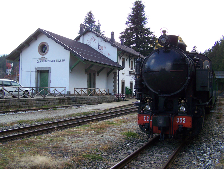 Steam train at the Camigliatello station